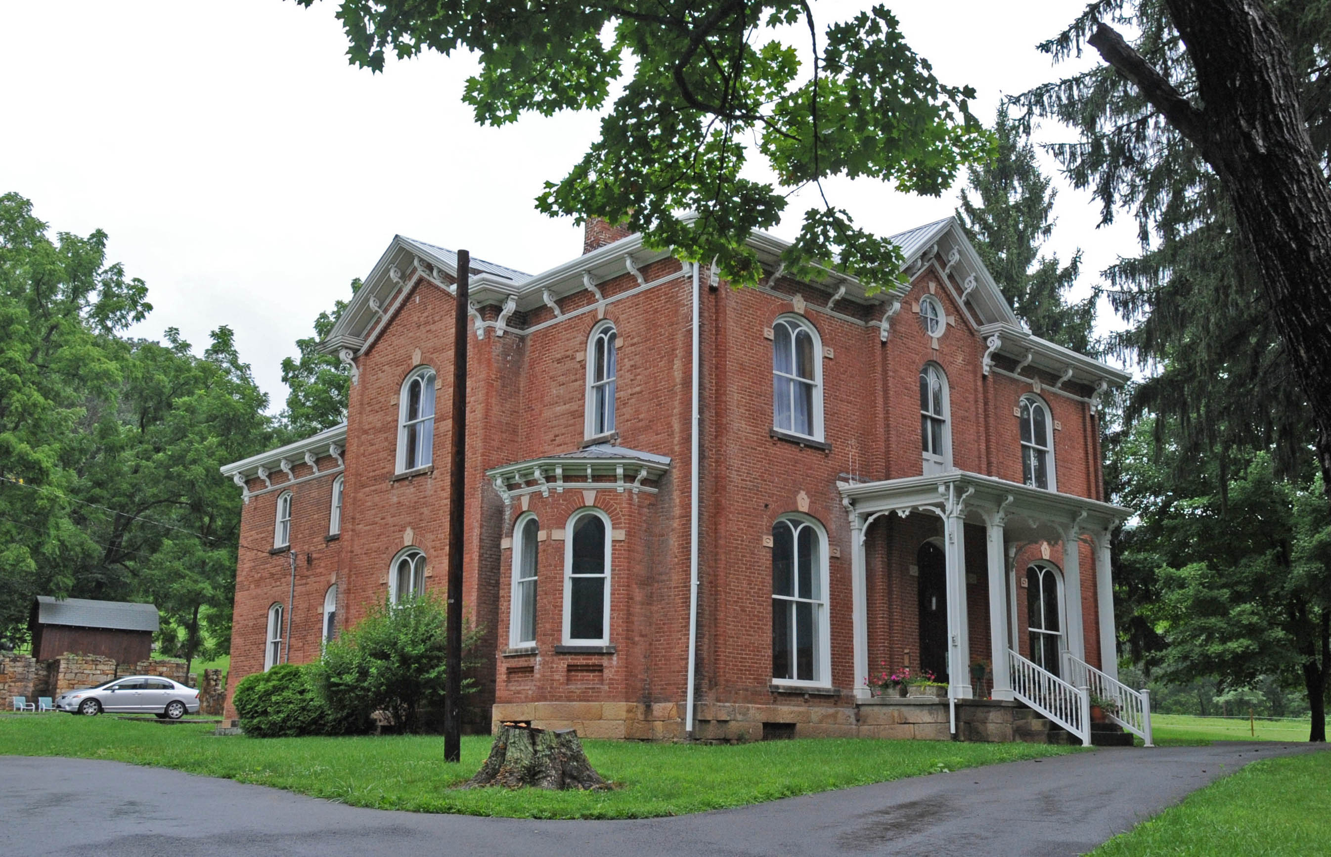 BUILT IN 1872 AS ONE OF THE FINEST ITALIANATE MANSIONS IN THE GEORGE’S CREEK VALLEY. IT IS NOW KNOWN AS THE ZION CHRISTIAN EDUCATION CENTER.